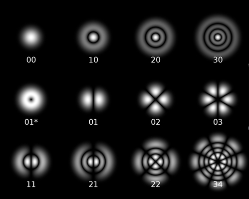 laser modes with circular mirrors